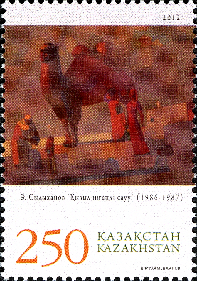 Stamps of Kazakhstan, 2012